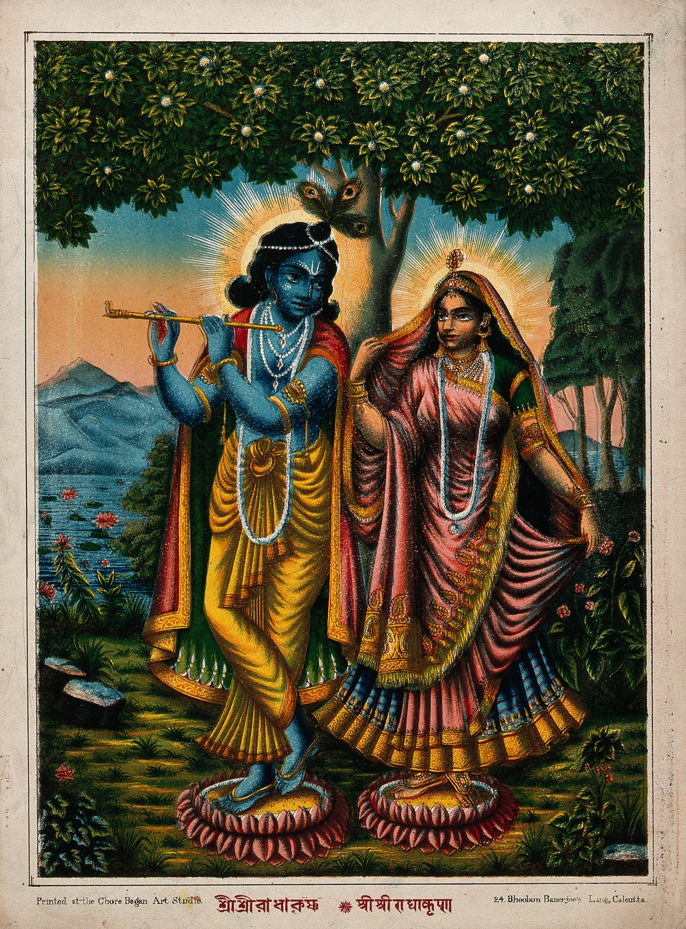 Radha and Krishna on separate lotuses. Chromolithograph. Iconographic Collections